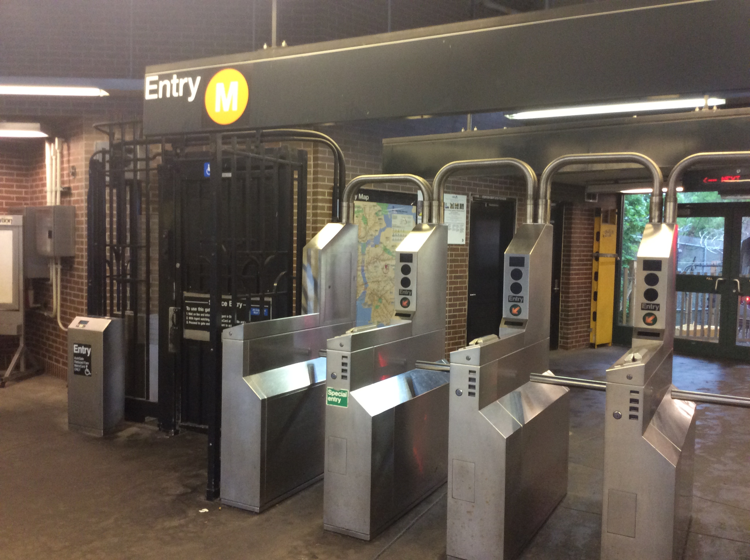 The Metropolitan Avenue subway station near Metro Mall in Queens, May 2017